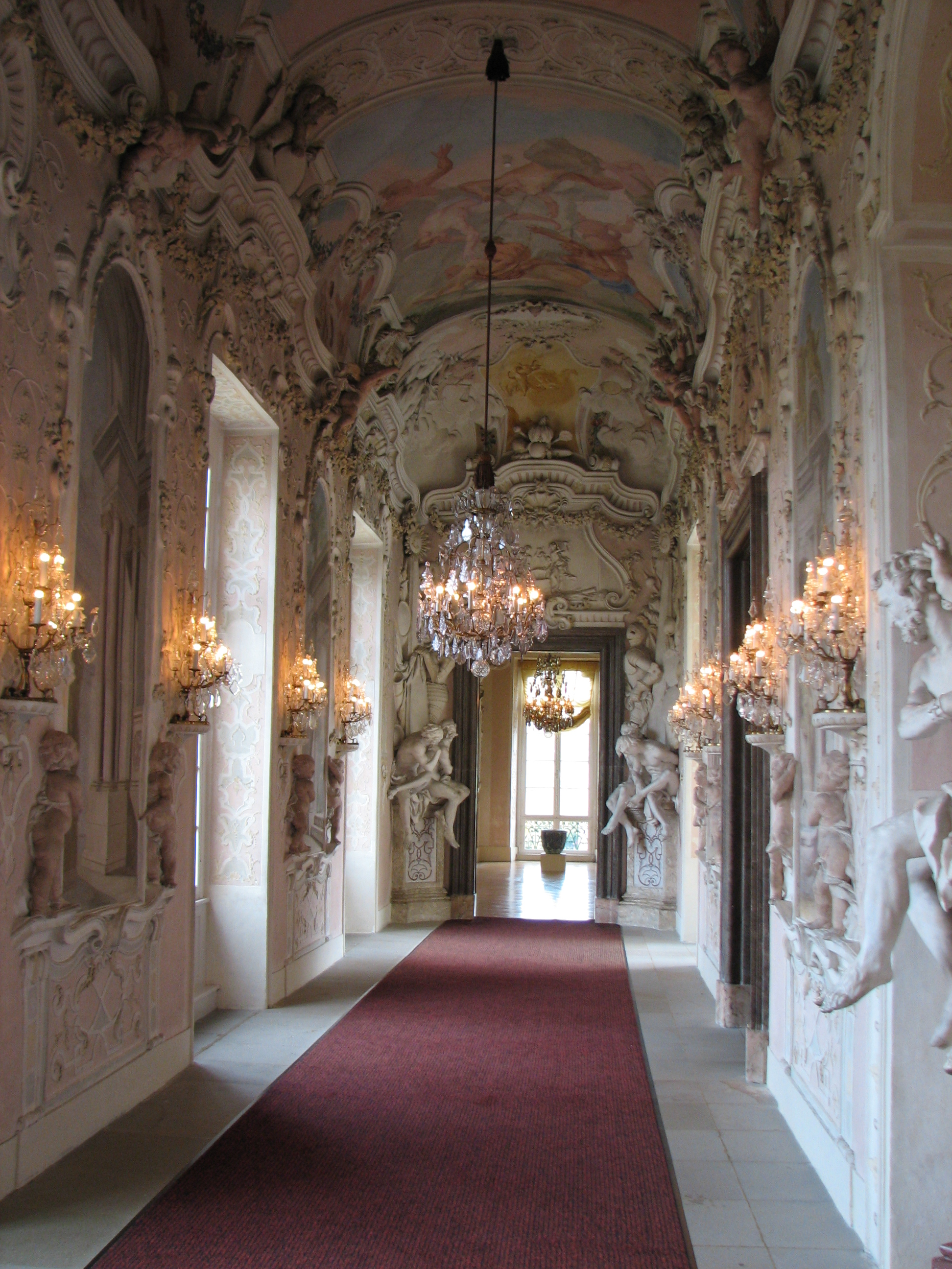 Ludwigsburg, Baden-Württemberg, Germany